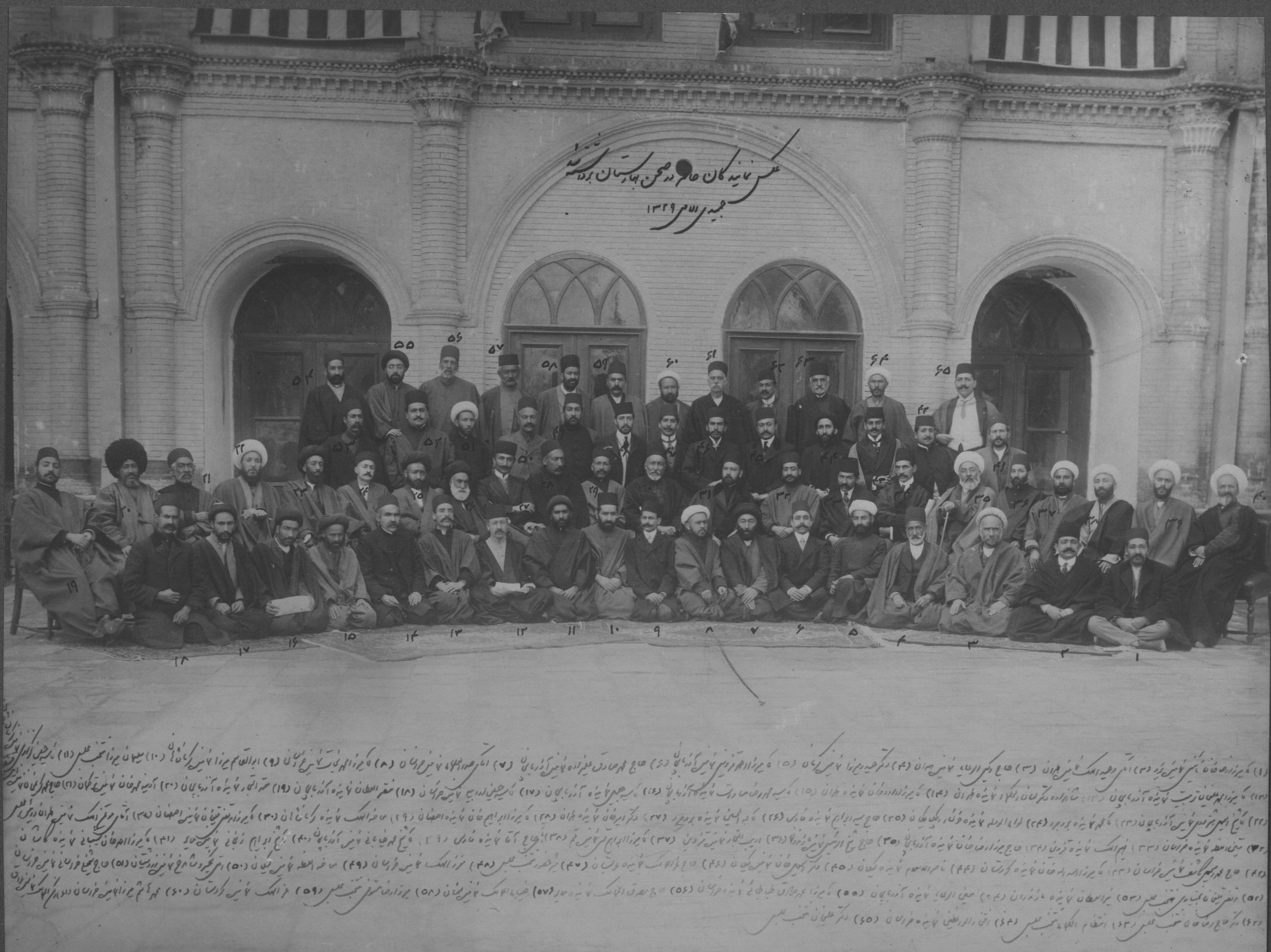 Representatives of the 2nd Iranian National Consultative Assembly